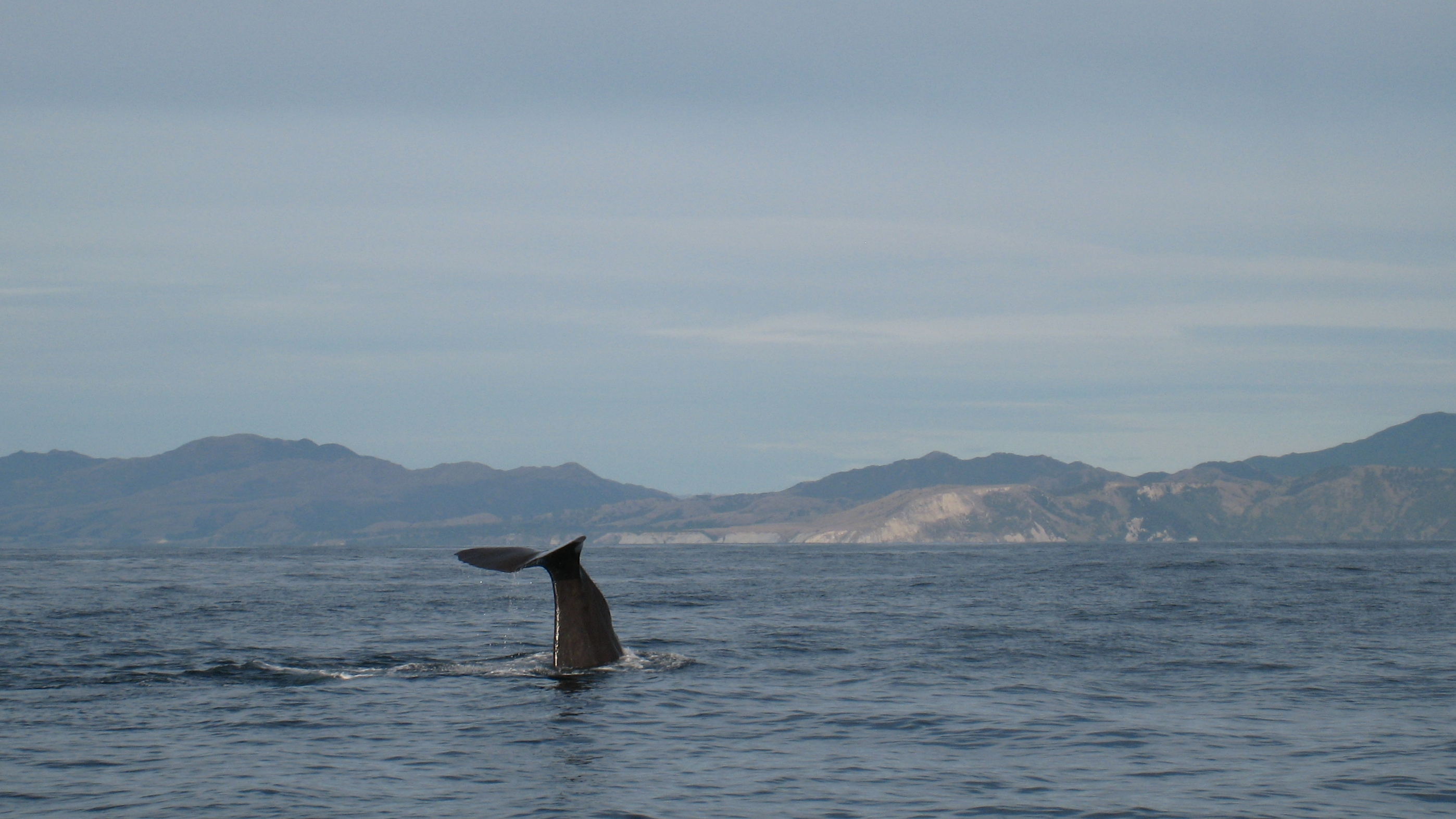 A sperm whale on a whale watching tour in Kaikoura